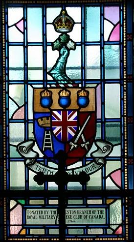 Stained Glass window featuring Royal Military College of Canada crest by Robert McCausland Ltd. in the Protestant Chapel, Yeo Hall, Royal Military College of Canada, Kingston, Ontario, Canada. The window was donated by the Kingston branch of the Royal Military College Club of Canada, May 1963.